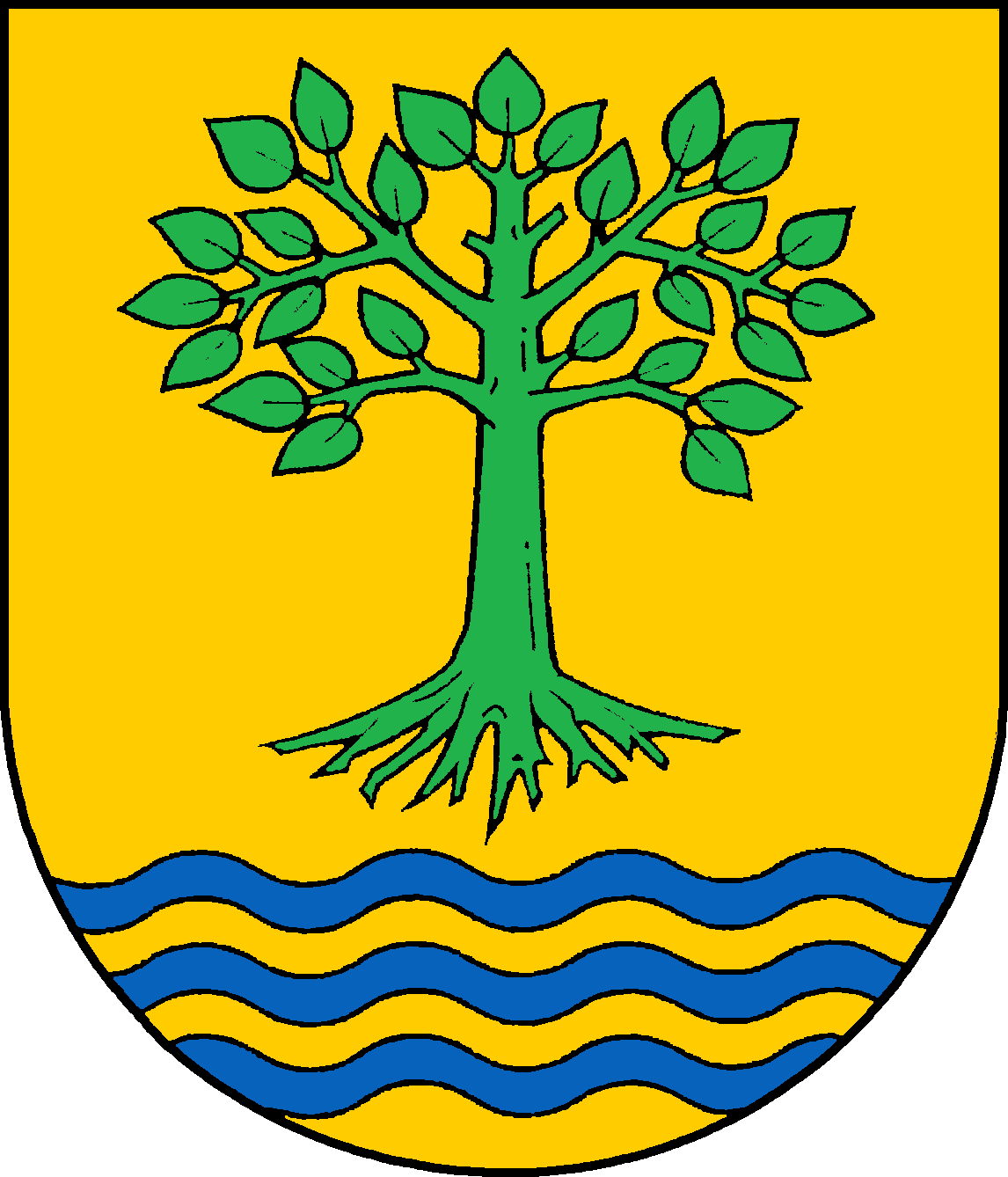 Coat of arms of the municipality Nehms in Schleswig-Holstein, Germany.